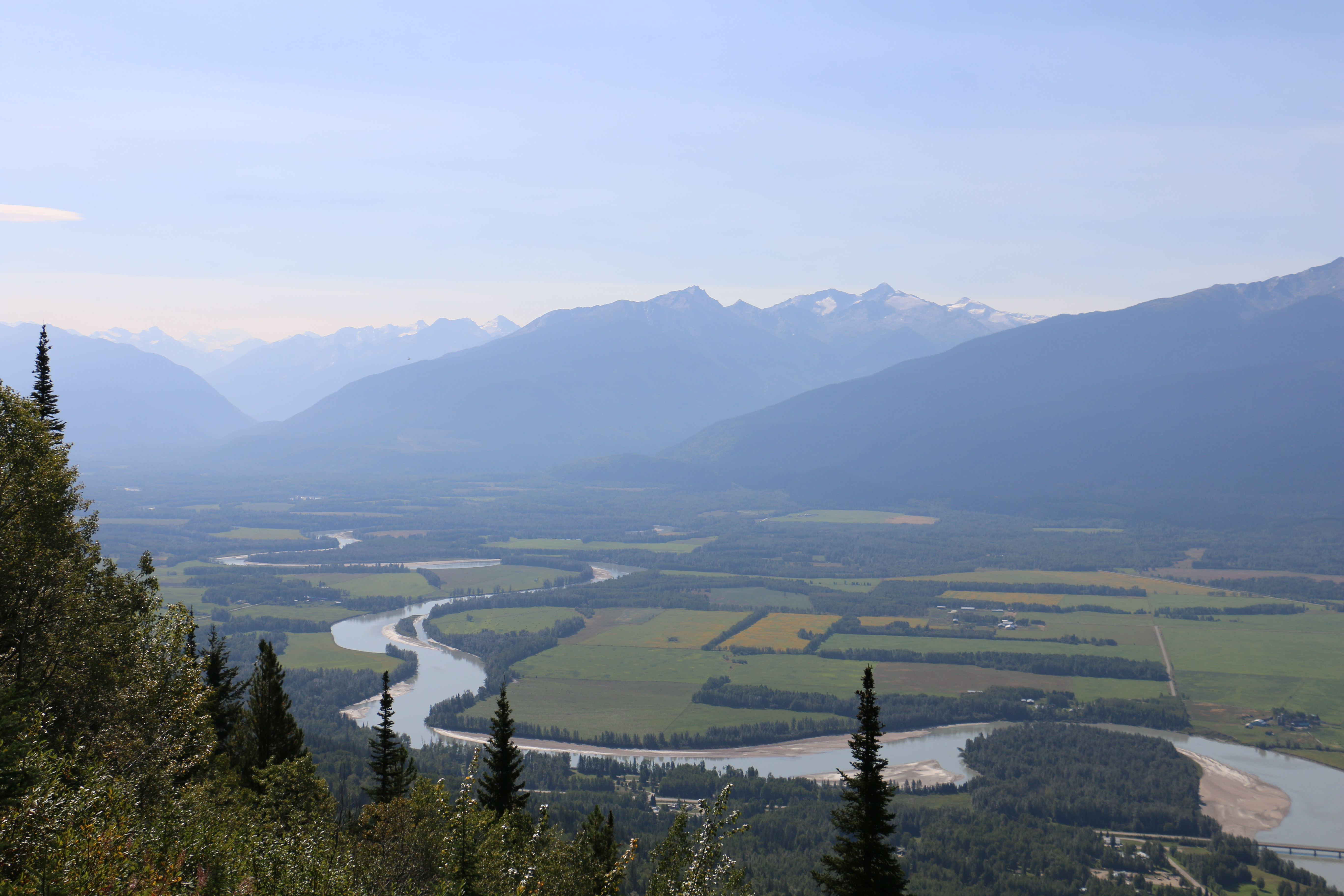 The upper Fraser River east of McBride, British Columbia, Canada. The Cariboo Mountains are in the background.